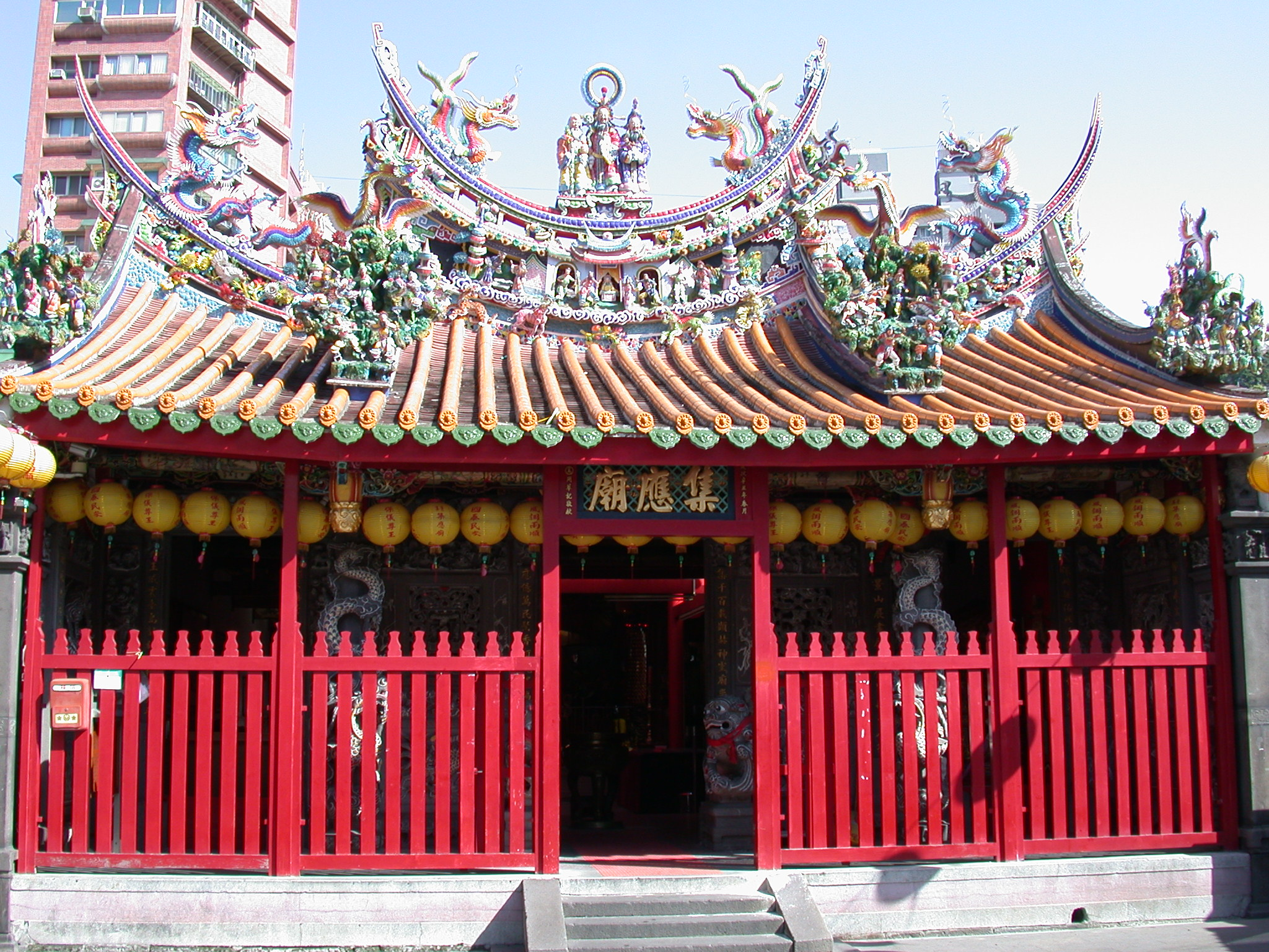 Jiying Temple(集應廟), Jingmei, Taipei, Taiwan.中文（台灣）: 集應廟在臺灣臺北市的景美Bân-lâm-gú: Tsi̍p-ìng-biō tī Tâi-uân Tâi-pak-tshī ê Kíng-bué.